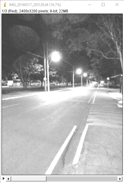 Imagem original com correção de brilho. Fonte: Próprio autor